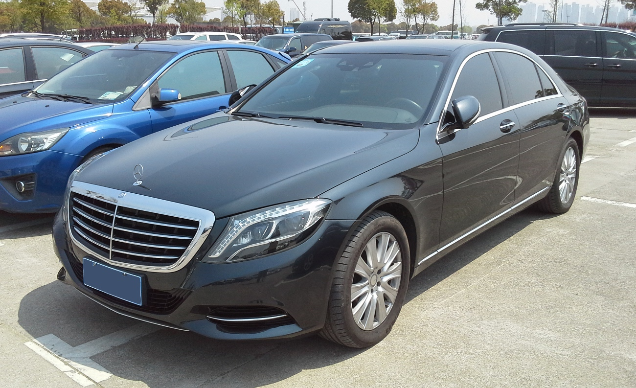 Mercedes-Benz S-Class V222 photographed in Anting, Shanghai municipality, China.